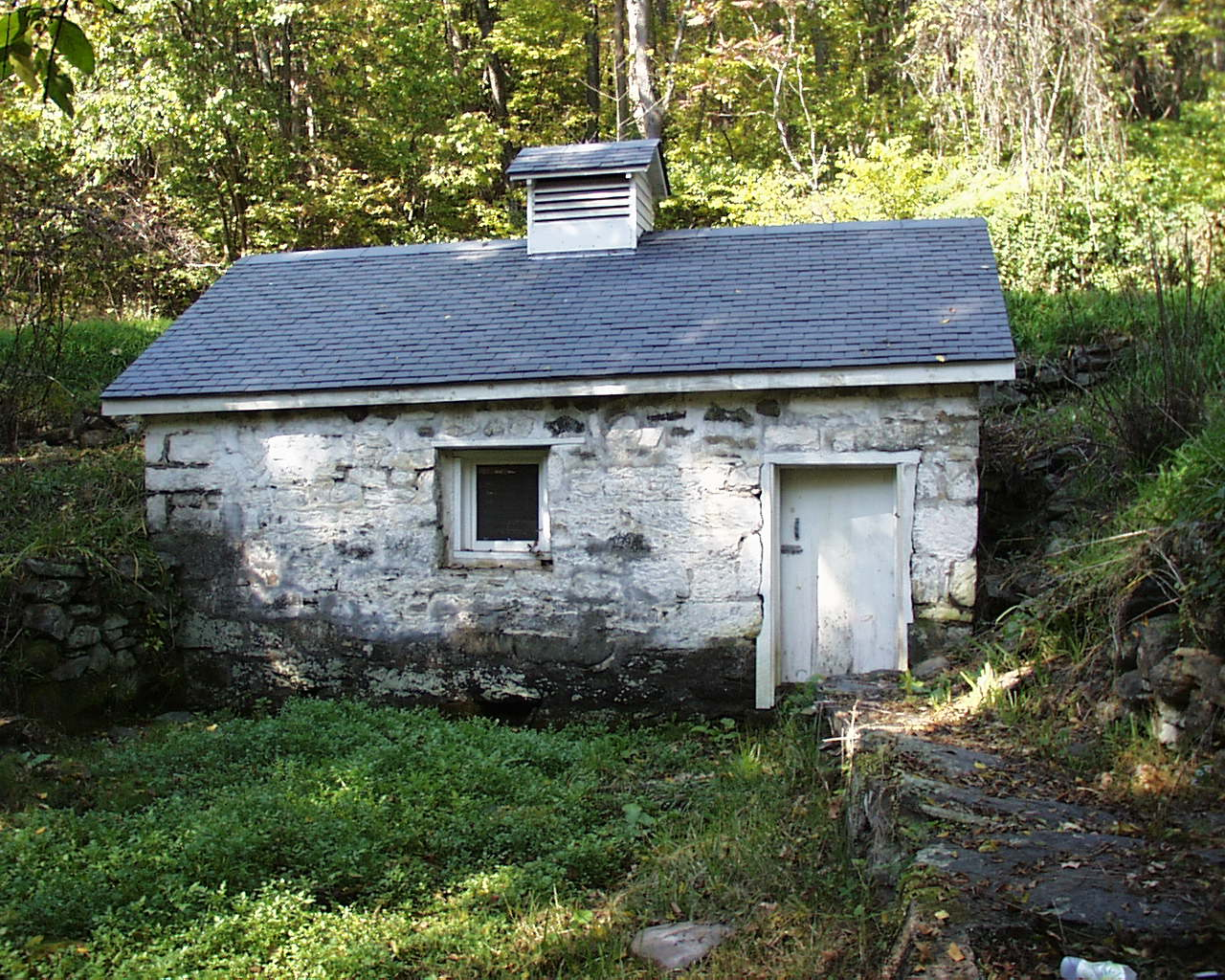 Cold Spring Farm Springhouse, also known as DeWitt Farm Springhouse, Delaware Water Gap National Recreation Area, Pennsylvania, USA